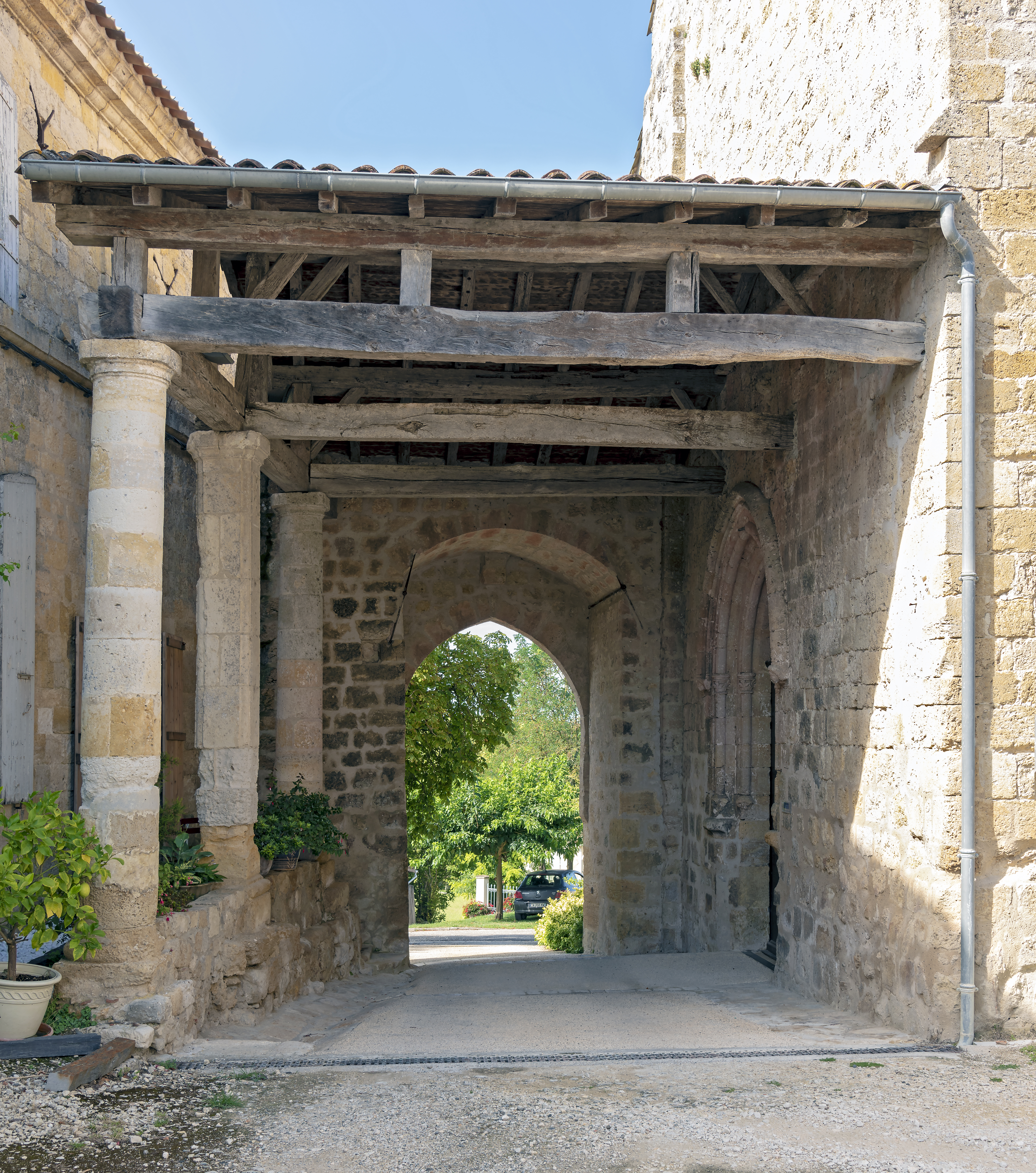 Ligardes - The fortified Gothic gate and the entrance to the church